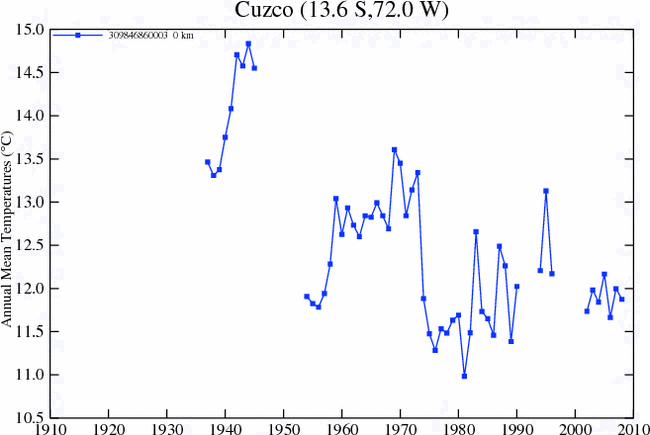 Climate graph of 1951 2008 air average temperaturas of Cuzco, Peru